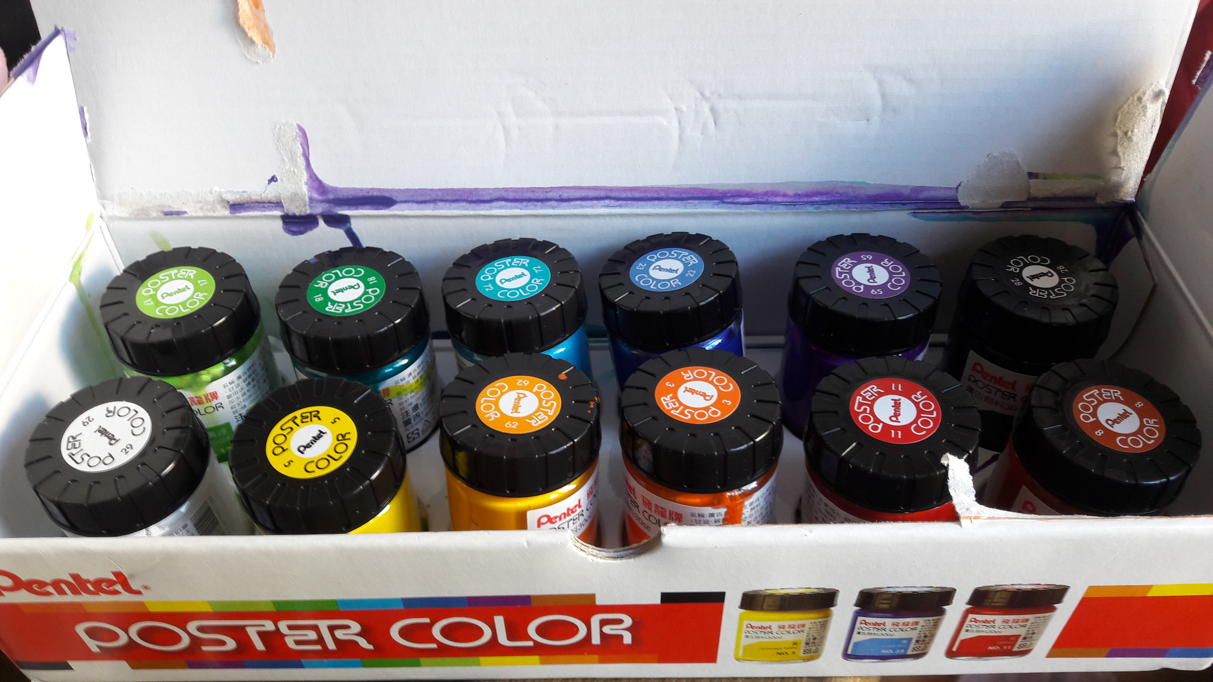 Pentel box of 12 "Poster Color" (ポスターカラー) a kind of water paint used in Japan to paint cartoon backgrounds. This box was found in Hualian, Taïwan